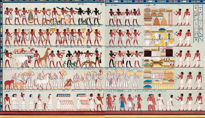 The tomb of Rekhmire the vizier, the highest ranking official under the pharaohs Tuthmosis III and Amenophis II (New Kingdom) during a period when Egypt’s empire stretched to its farthest extent and was at the peak of her prosperity. Representation from foreigners, bringing trades, tibutes and taxes to the tomb owner. The people of Punt who bring incense trees, baboons, monkeys and animal hides. The people of Kefti (probably Crete), carrying pots and cubs. The Kushites (Nubians) who bring animals of equatorial Africa (giraffes, leopards, baboons, monkeys and dogs), offering ivory, animal hides and gold. People from Syria Slaves